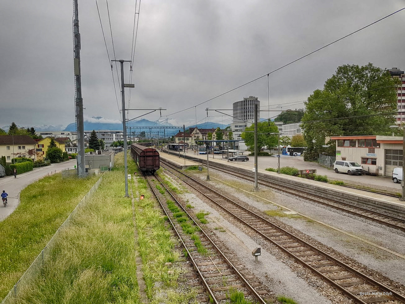 View of the railway station in Heerbrugg